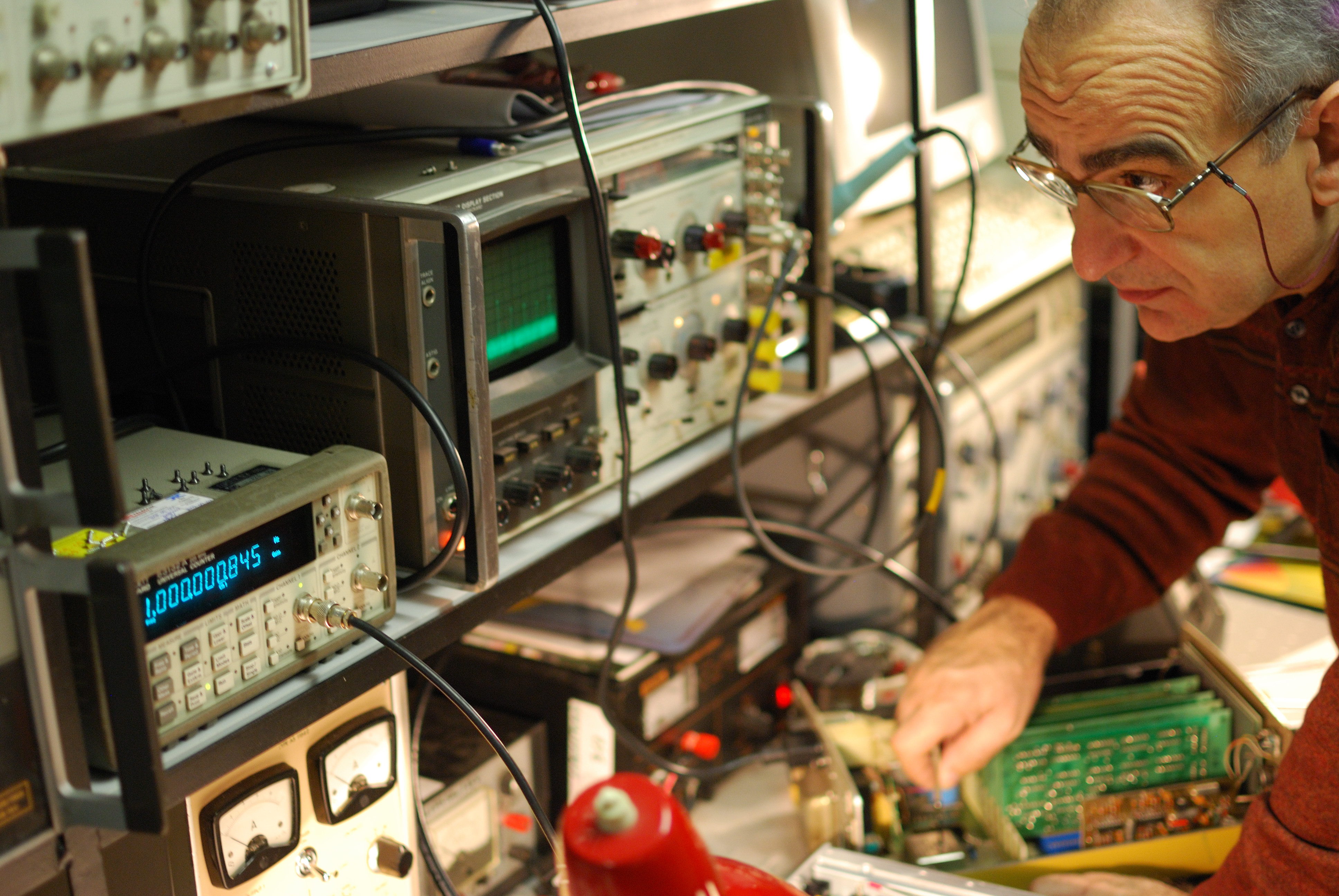 Italian amateur radio operator Maurizio Ferrari adjusting the oscillator of a Kenwood TS2000 transceiver